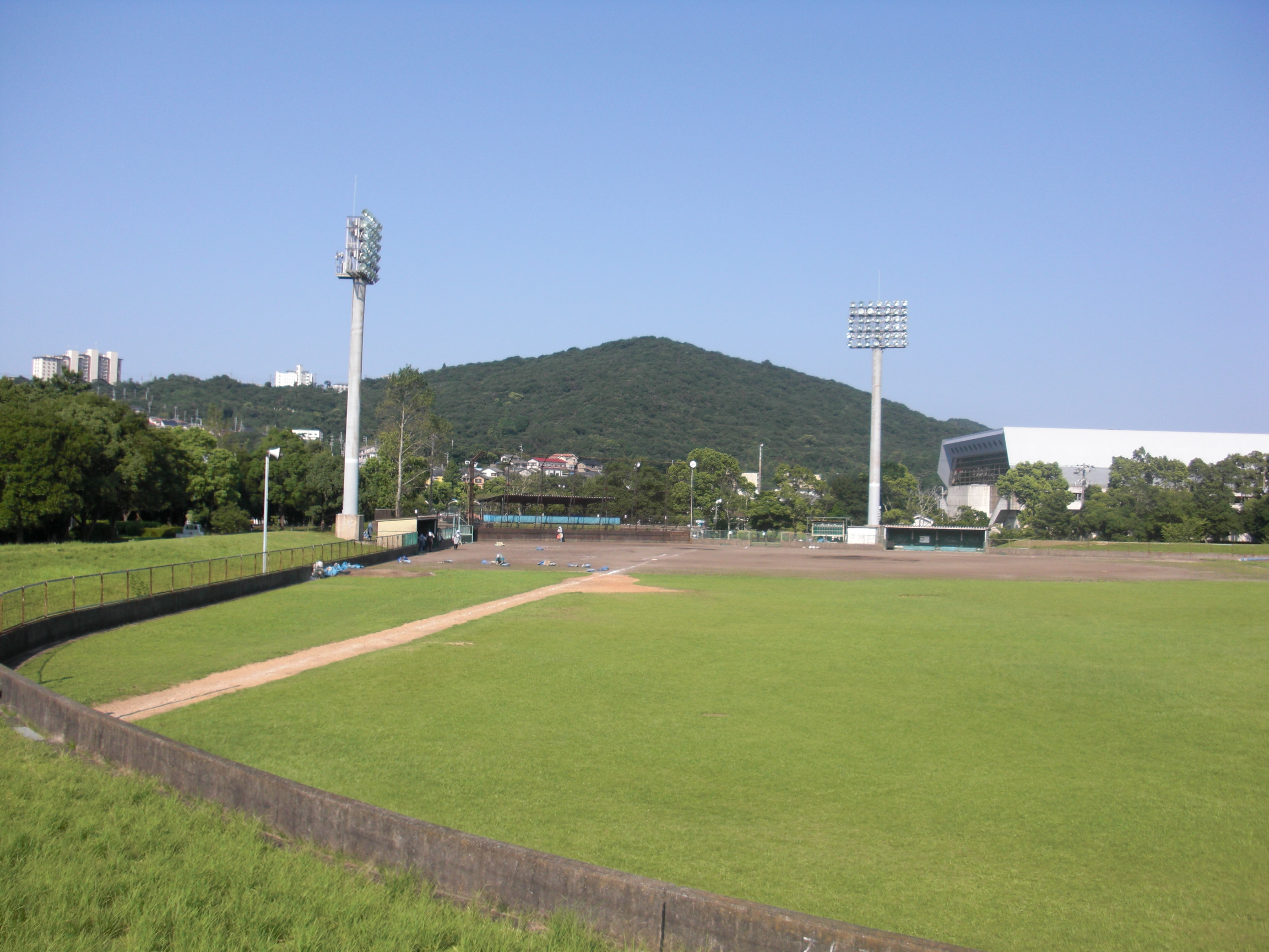 This is the Toba Central Park Baseball Park, which is located in Toba, Mie, Japan.